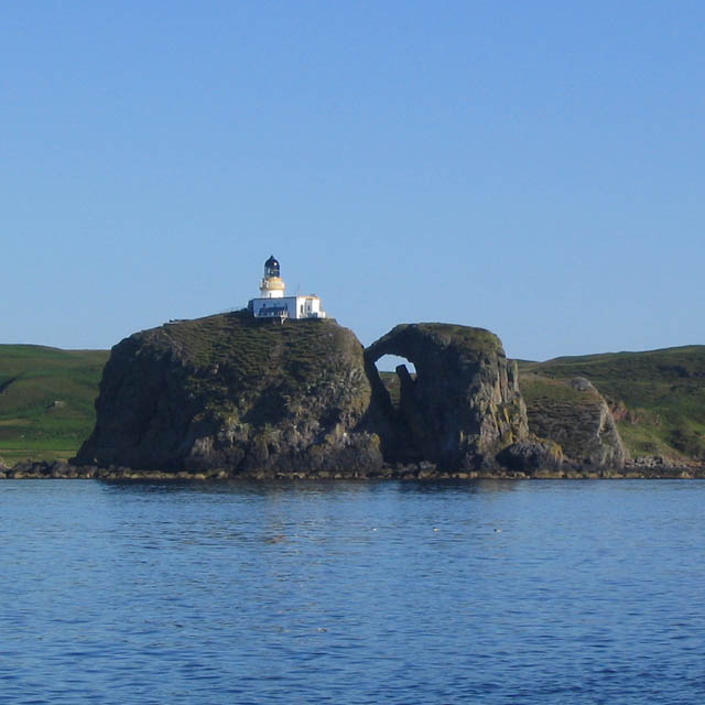 Sanda Island Lighthouse. Sand Island lighthouse standing on a rocky promontory known as the ship, on the south side of Sanda at a height of 50 metres.